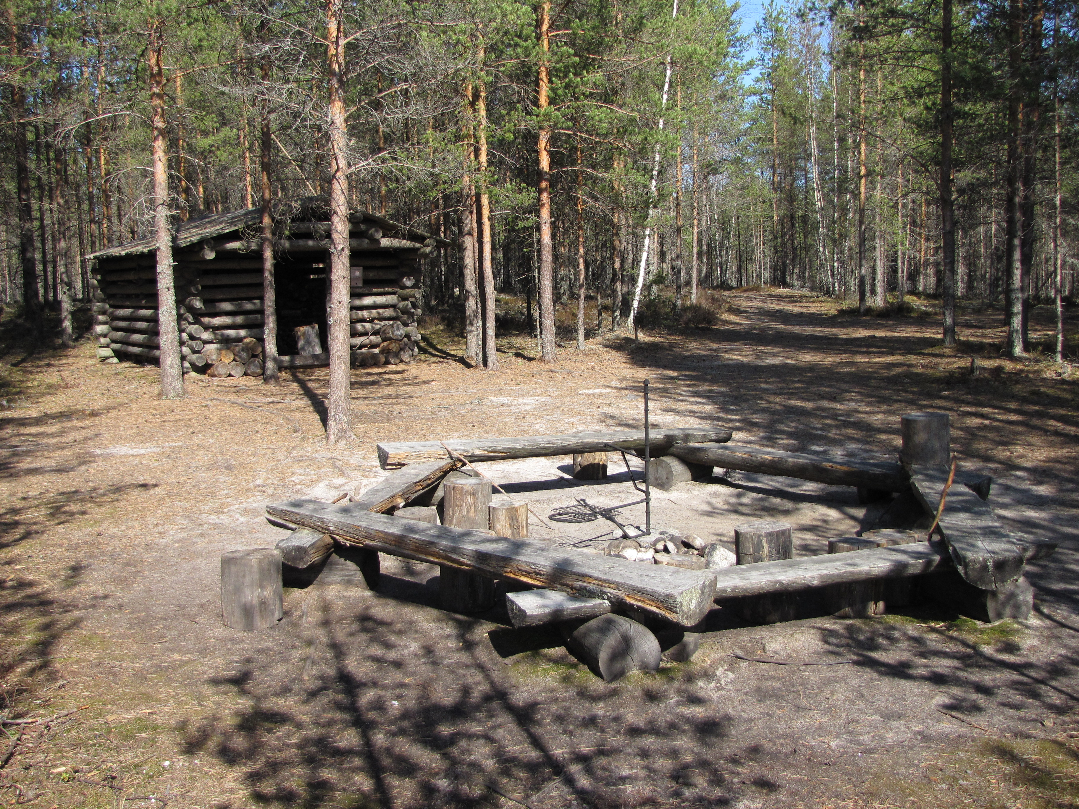 Kauhalammi campfire place in Kauhaneva–Pohjankangas National Park, Finland.